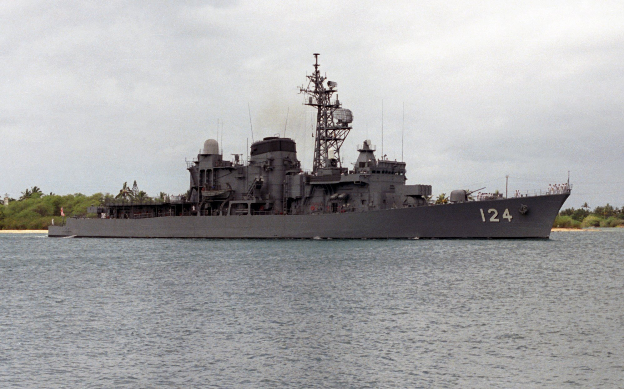 A starboard bow view of the Japanese destroyer Mineyuki (DD-124) underway during Exercise RIMPAC '86. Location: PEARL HARBOR, HAWAII (HI) UNITED STATES OF AMERICA (USA)